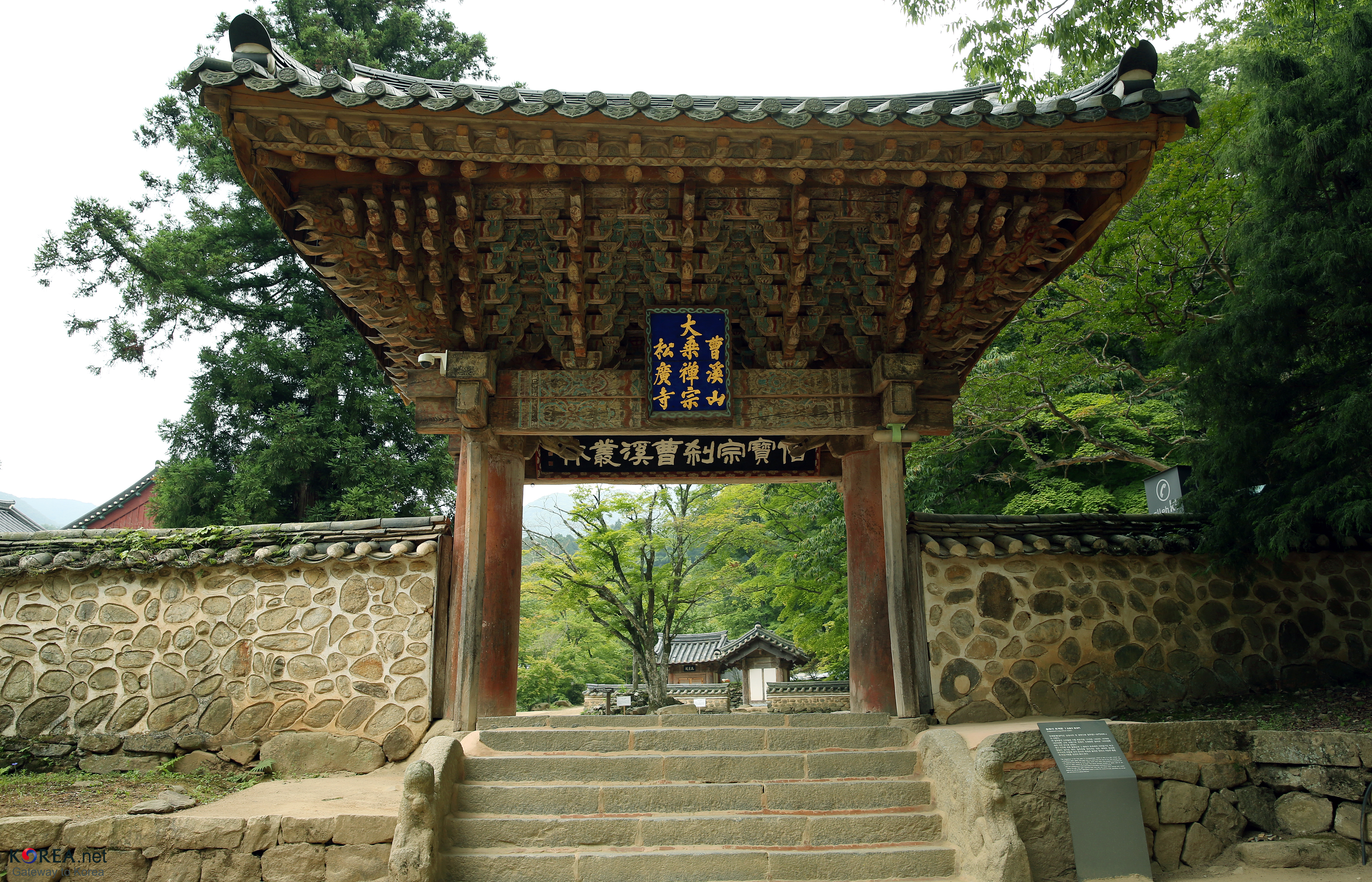 Korail Temple stay Train Songgwangsa Temple jogyemun(Jogyemun Gate) – The Jogyemun is the first gate to Songgwangsa, which is why is also known as Iljumun(One Pillar Gate). This gate was first built near the end of the Silla Period, and was repaired and rebult in 1310, 1464, and 1802. The present is presumed to be built in 8102, based on its style. The Stone animals located on either side of the steps are ambiguous in form and seem to be either monkeys or lions. Passing through this gate signifies that one has put down their carnal and worldly desires as well as their distracted souls to enter the world of truth, and one should act and think in a pious manner. July 1, 2014 Songgwang-myeon, Suncheon-si, Jeollanam-do Ministry of Culture, Sports and Tourism Korean Culture and Information Service ( Official Photographer: Jeon Han 코레일 템플스테이 테마 열차 송광사(松廣寺) 조계문 – 조계문은 송광사의 첫 관문으로 일주문이라고도 부른다. 이 일주문은 신라말에 처음 세운 것을 1310년, 1464년, 1676년, 1802년에 고쳐 지었으며 현재의 조계문은 양식상 1802년에 새로 지은 것으로 보인다. 계단 좌우에 세운 돌짐승은 그 형태가 모호하여 사자 같기도 하고 원숭이 같기도 하다. 일주문을 들어서는 것은 세속의 번뇌와 흐트러진 마음을 모아 진리의 세계로 들어선 것이니 가능한 행동과 마음가짐을 경건히 해야 한다. 2014-07-01 전라남도 순천시 송광면 문화체육관광부 해외문화홍보원 코리아넷 전한